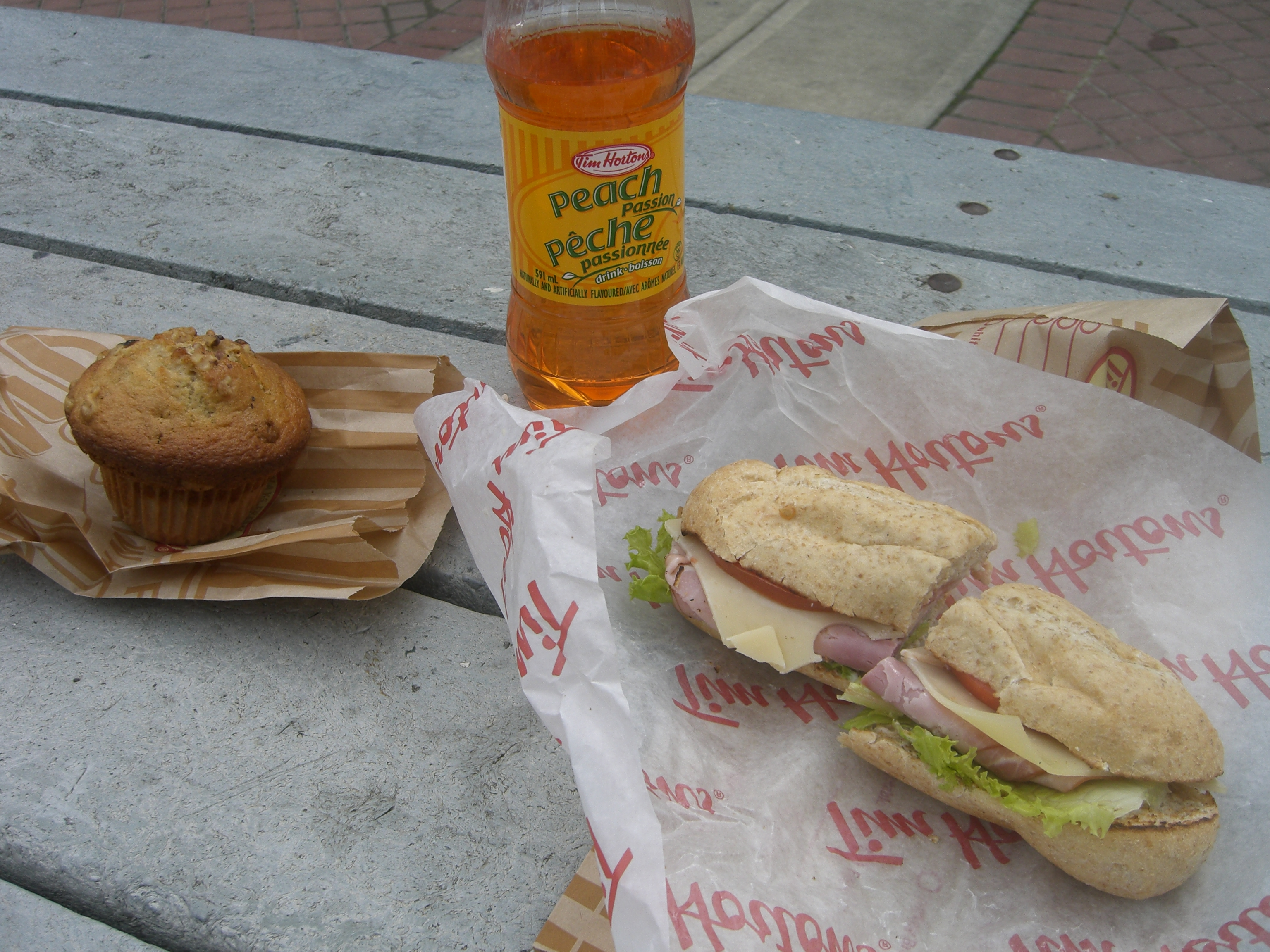 myke waddy, August 16th 2006, My tim hortons lunch, from the one on Jasper ave, enar corona LRT station, edmonton alberta. Ham+swiss sandwich, bannnnnna nut muffin, peach juice.